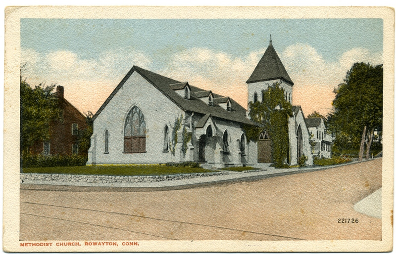 Postcard: Methodist Church, Rowayton, postmarked 1917 Description: Type: White Border era (1915-1930) Postmarked: South Norwalk, Conn. - Jul 6, 1917 Publisher: Danziger & Berman, New Haven, Conn.